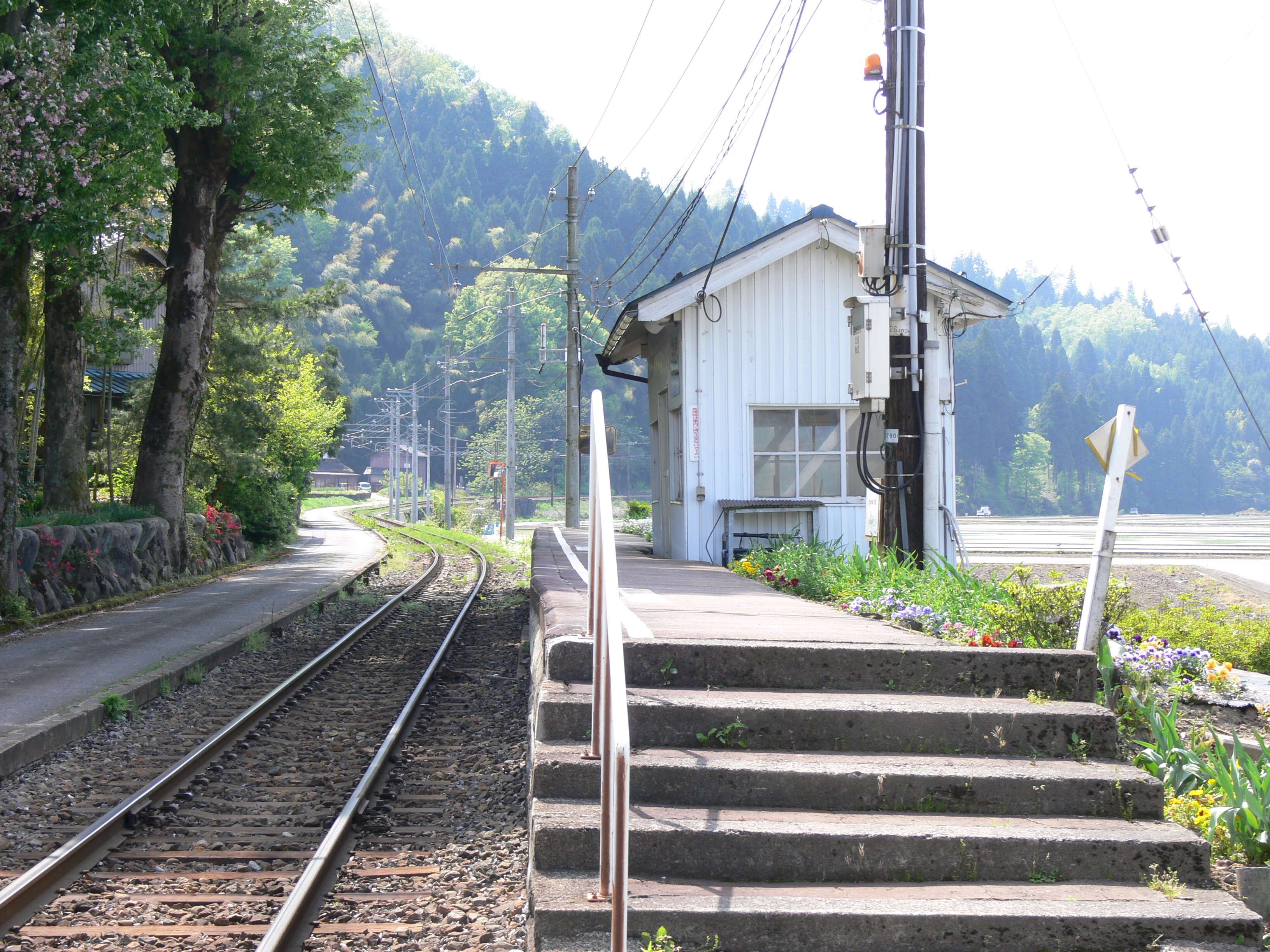 Hishima Station